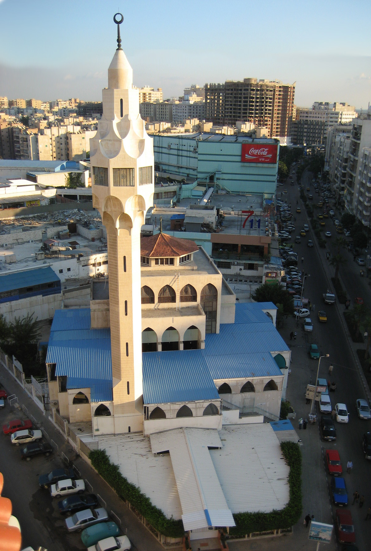 لقطة من إحدى البنايات المواجهة للمسجد This photo was taken from facing building there.